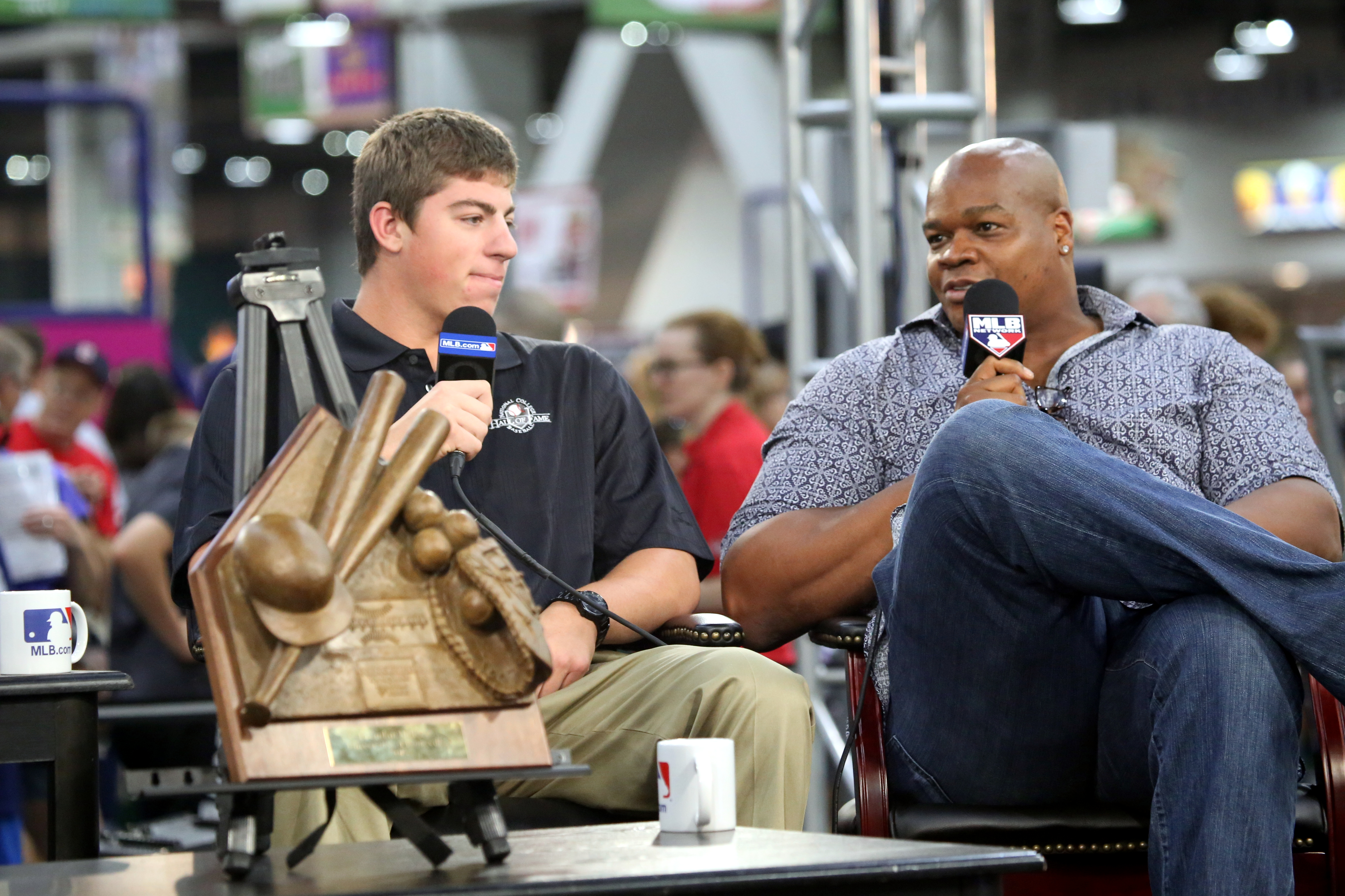 2015 John Olerud Award winner Brendan McKay of Louisville chats with Hall of Famer Frank Thomas.